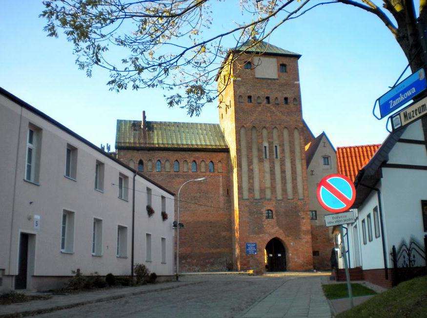 Darłowo Castle, as released by image creator Ristesson;Place: Darłowo, Poland